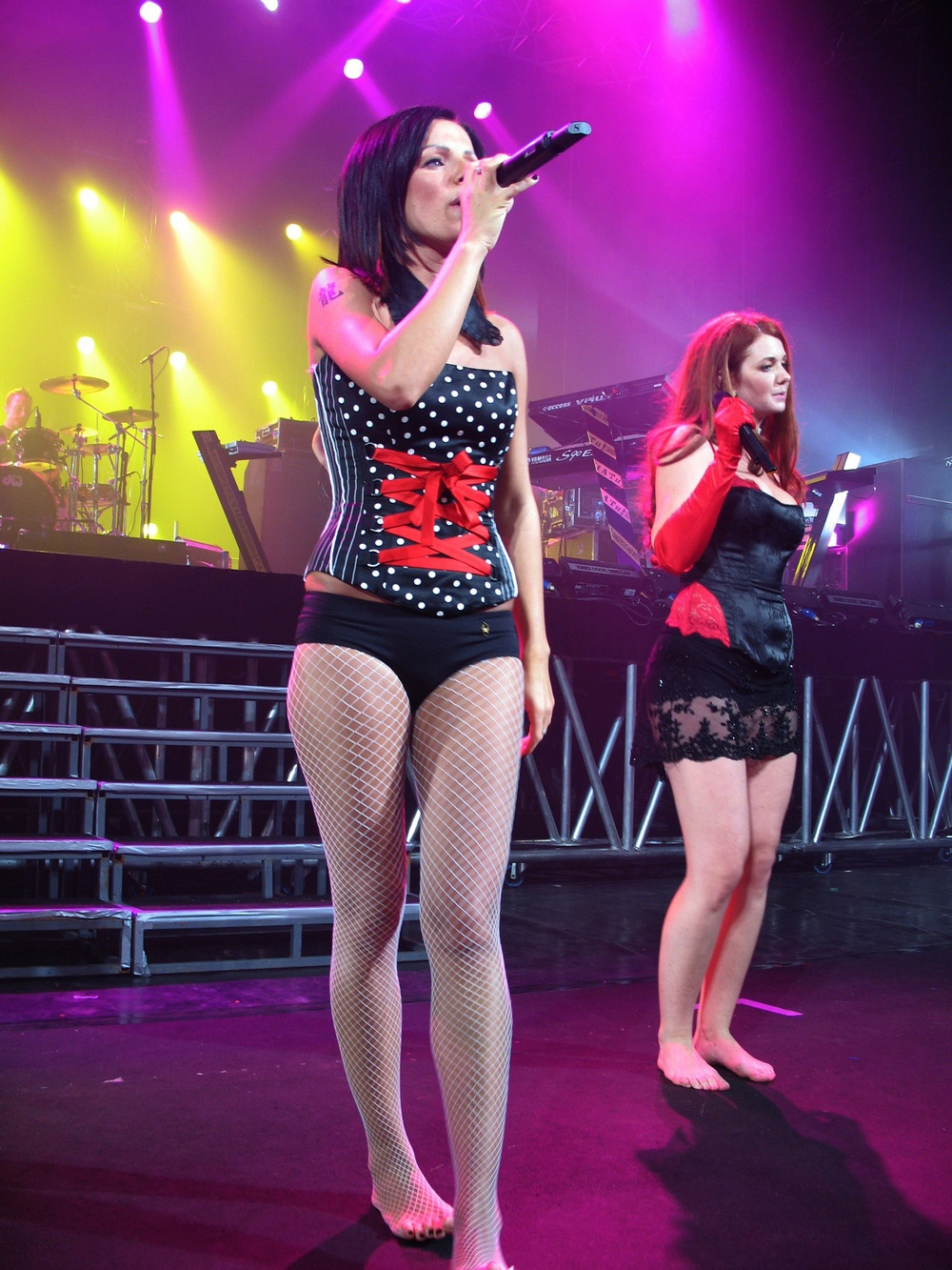 t.A.T.u. Bacardi B-LIVE in Moscow